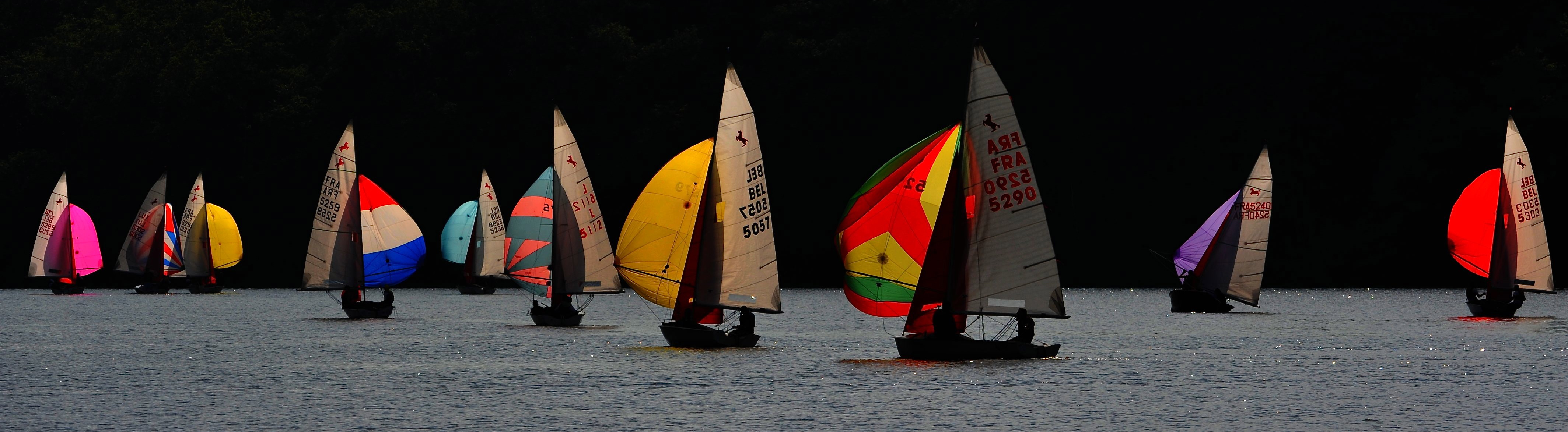 Les Ponants au Championnat du Luxembourg